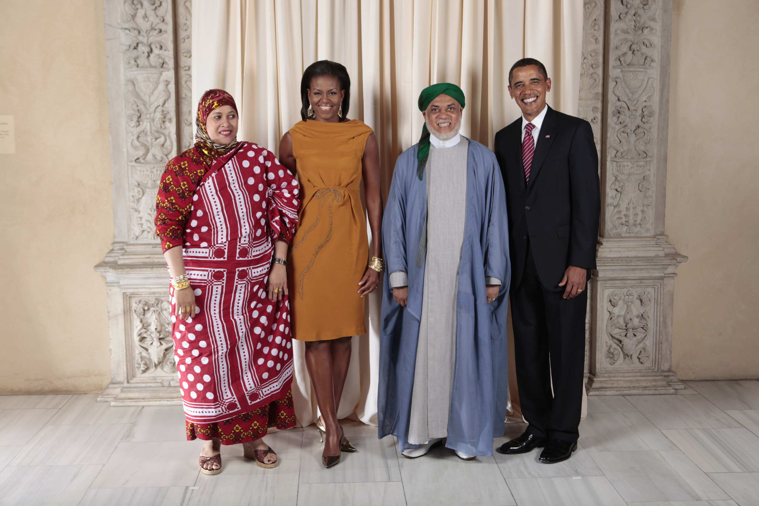 President Barack Obama and First Lady Michelle Obama pose for a photo during a reception at the Metropolitan Museum in New York with H.E. Ahmed Abdallah Mohamed Sambi, President of the Union of the Comoros, and his wife, Mrs. Djoudi Hadjir.